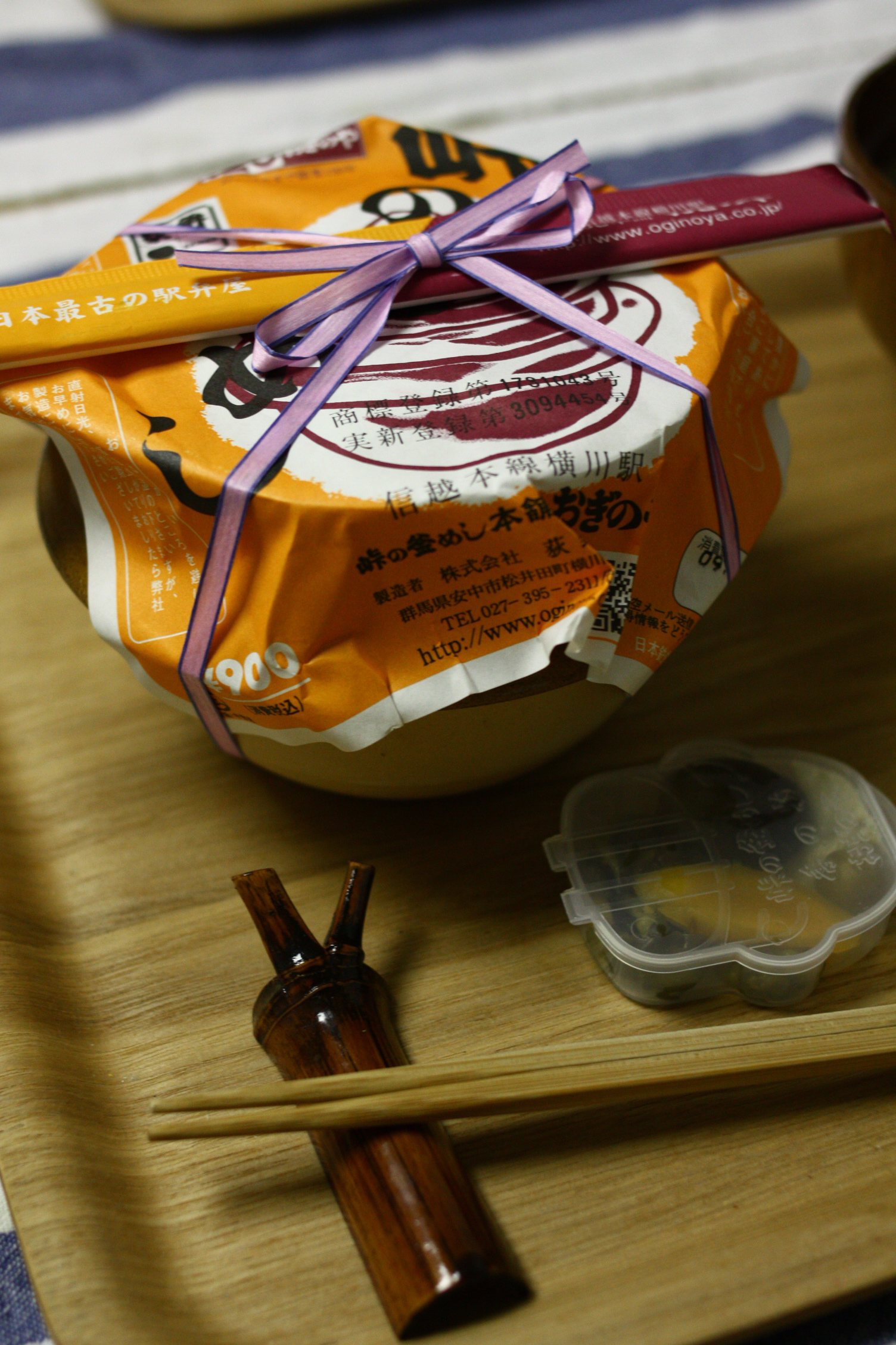 Tōge no Kamameshi. See also the photographer's blog.